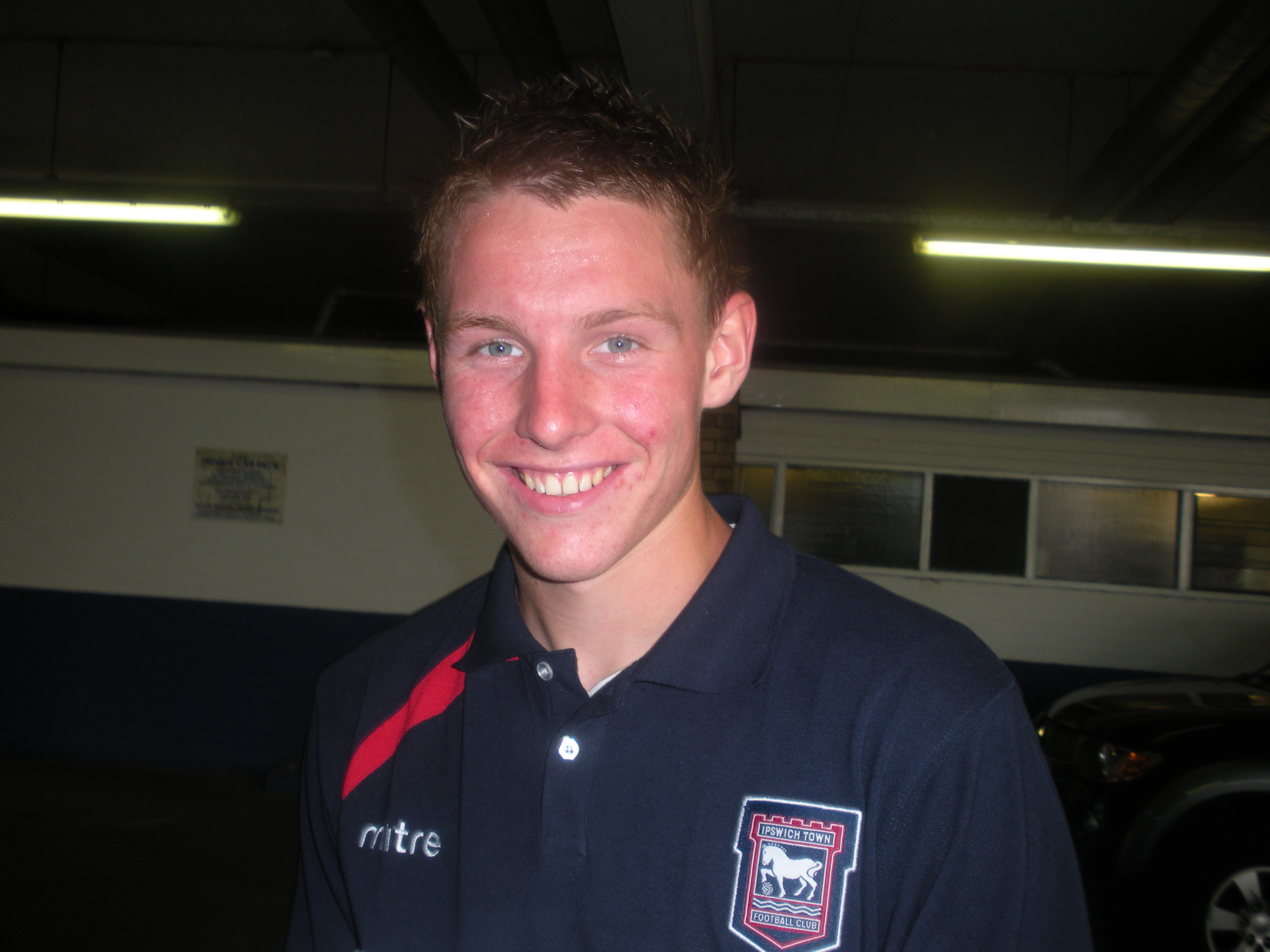 Connor Wickham, Ipswich Town player. Author also gives permission for this image to be used by Simply Blue